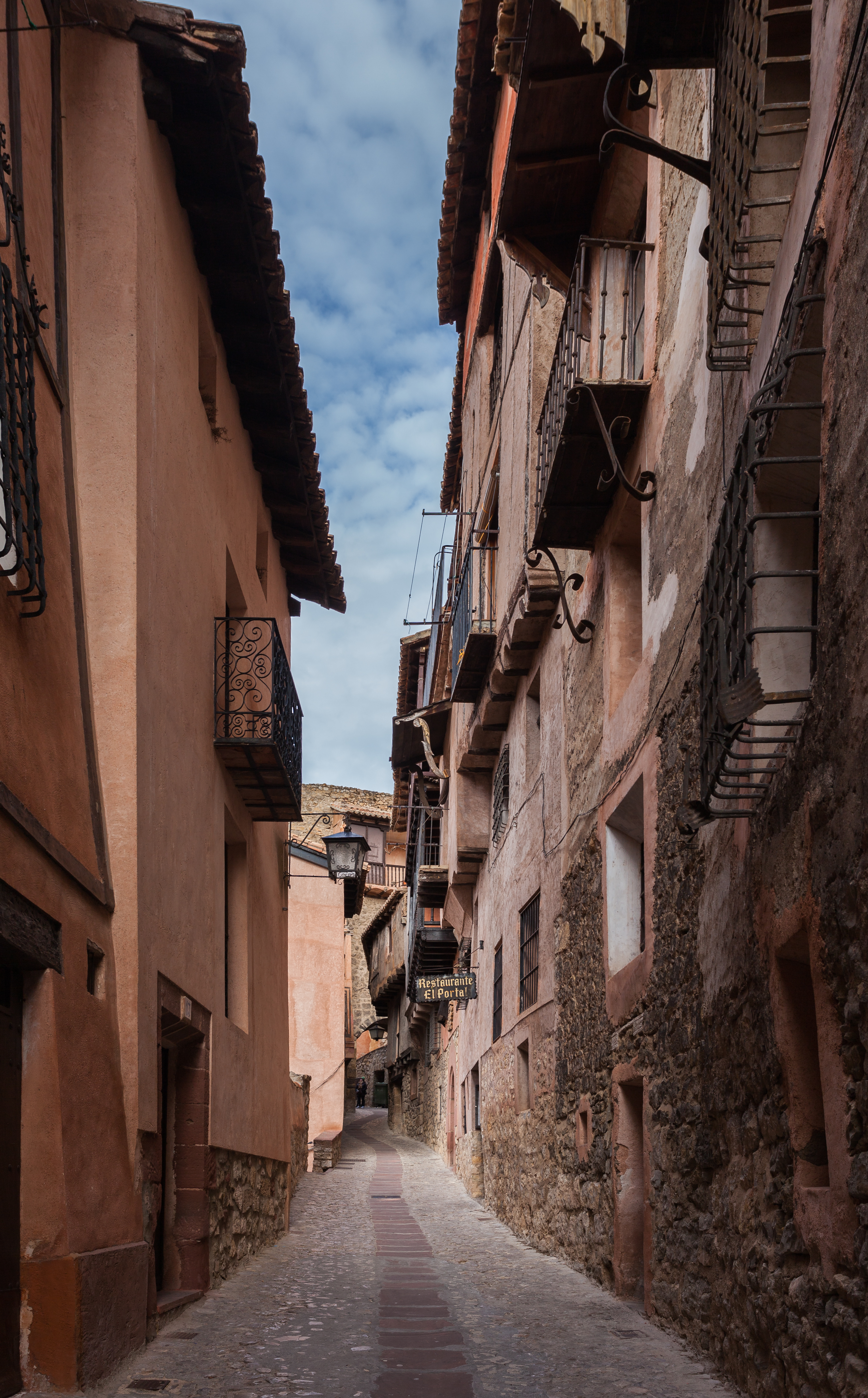 Albarracín, Teruel, Spain